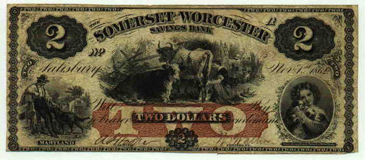 2 dollars des Etats Unis d'Amérique datés du 1 Novembre 1862